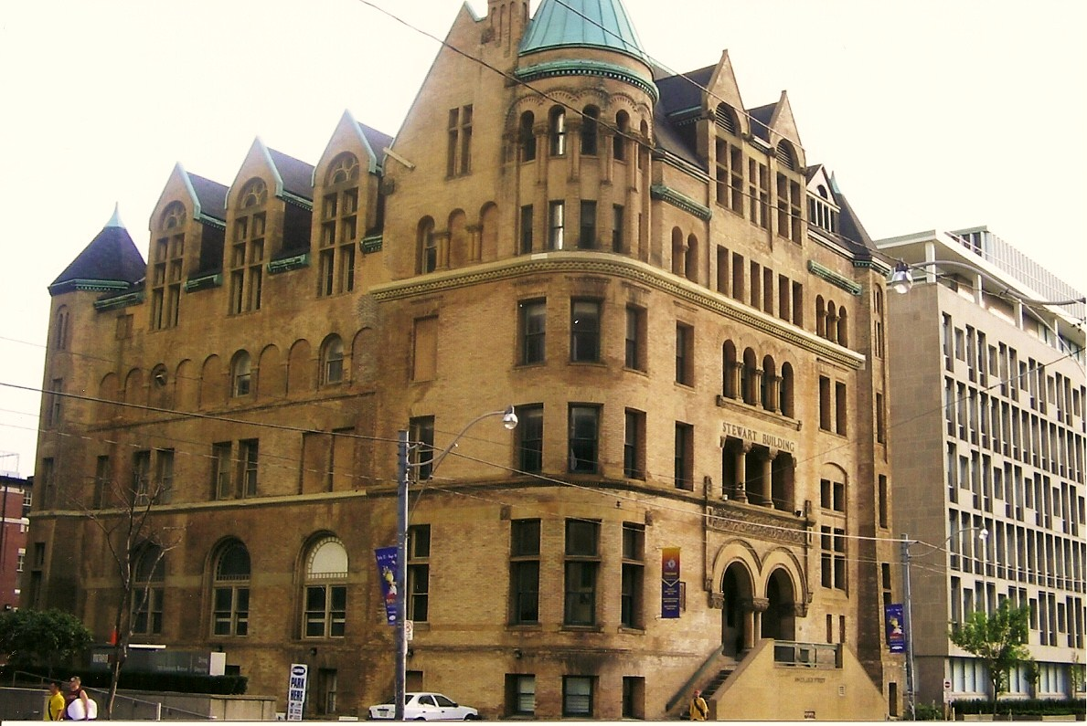 The Stewart Building (originally constructed as the Toronto Athletic Club) on College Street, Toronto, Canada.